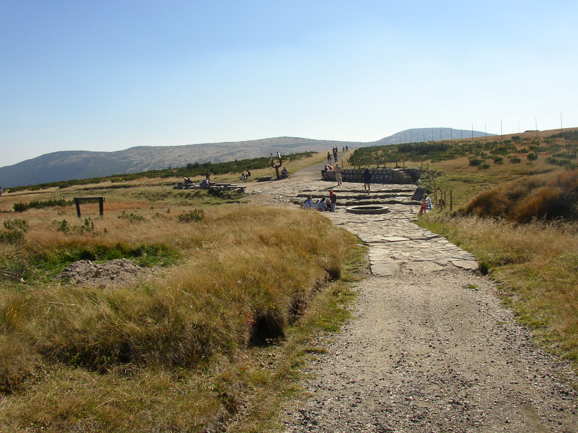 Elbe Spring in Karkonosze as seen in late summer from north.